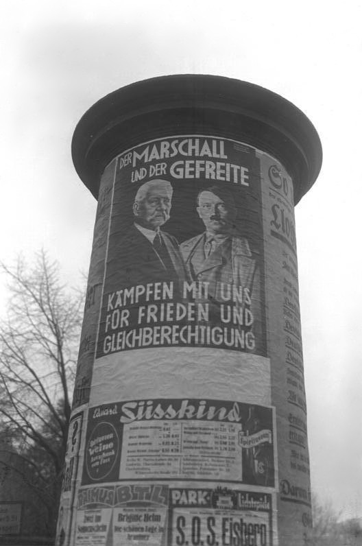 The poster says: "The marshall and the corporal fight with us for peace and rights equality".